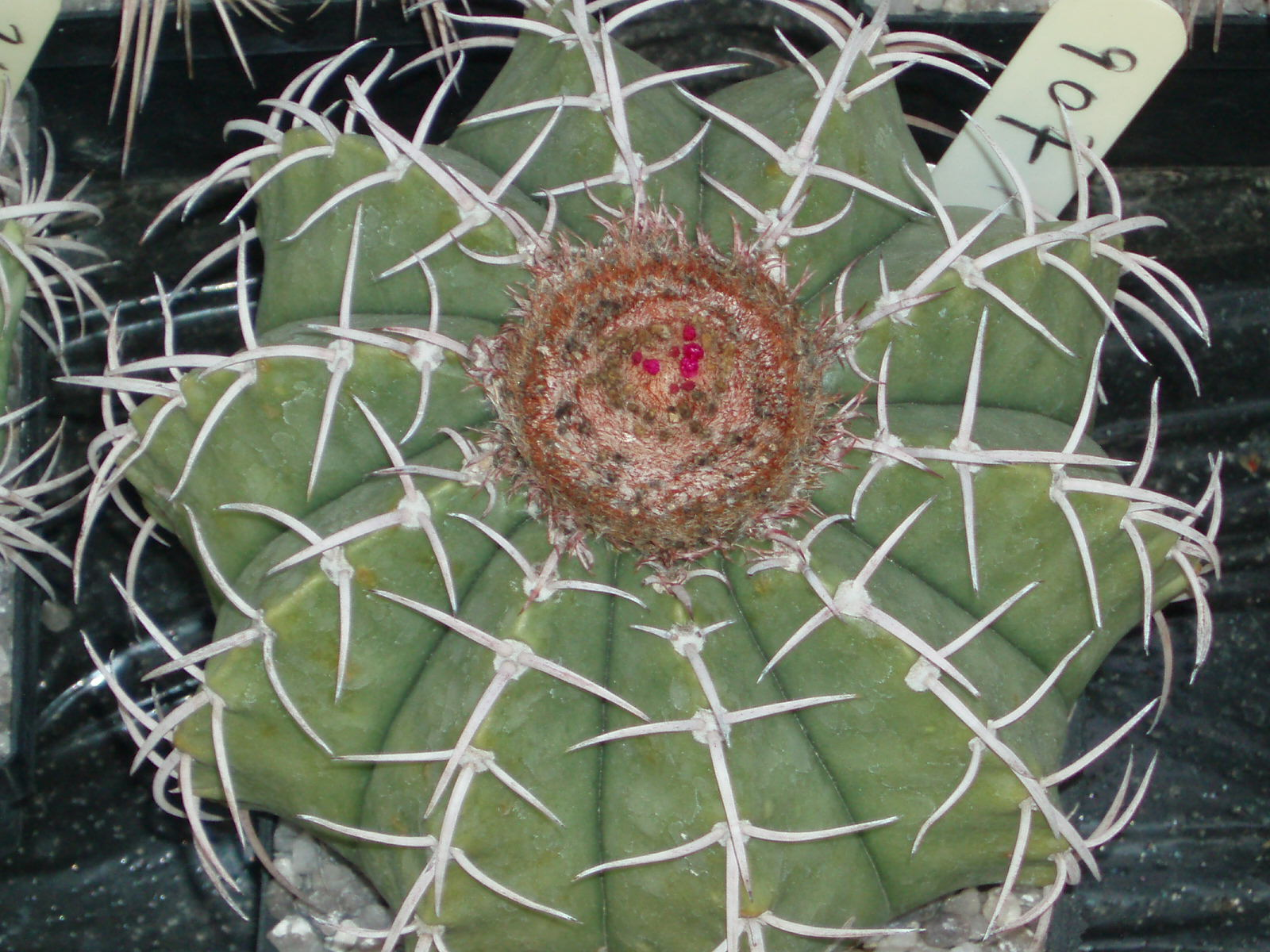 plant from type locality, Bahia, Brasil